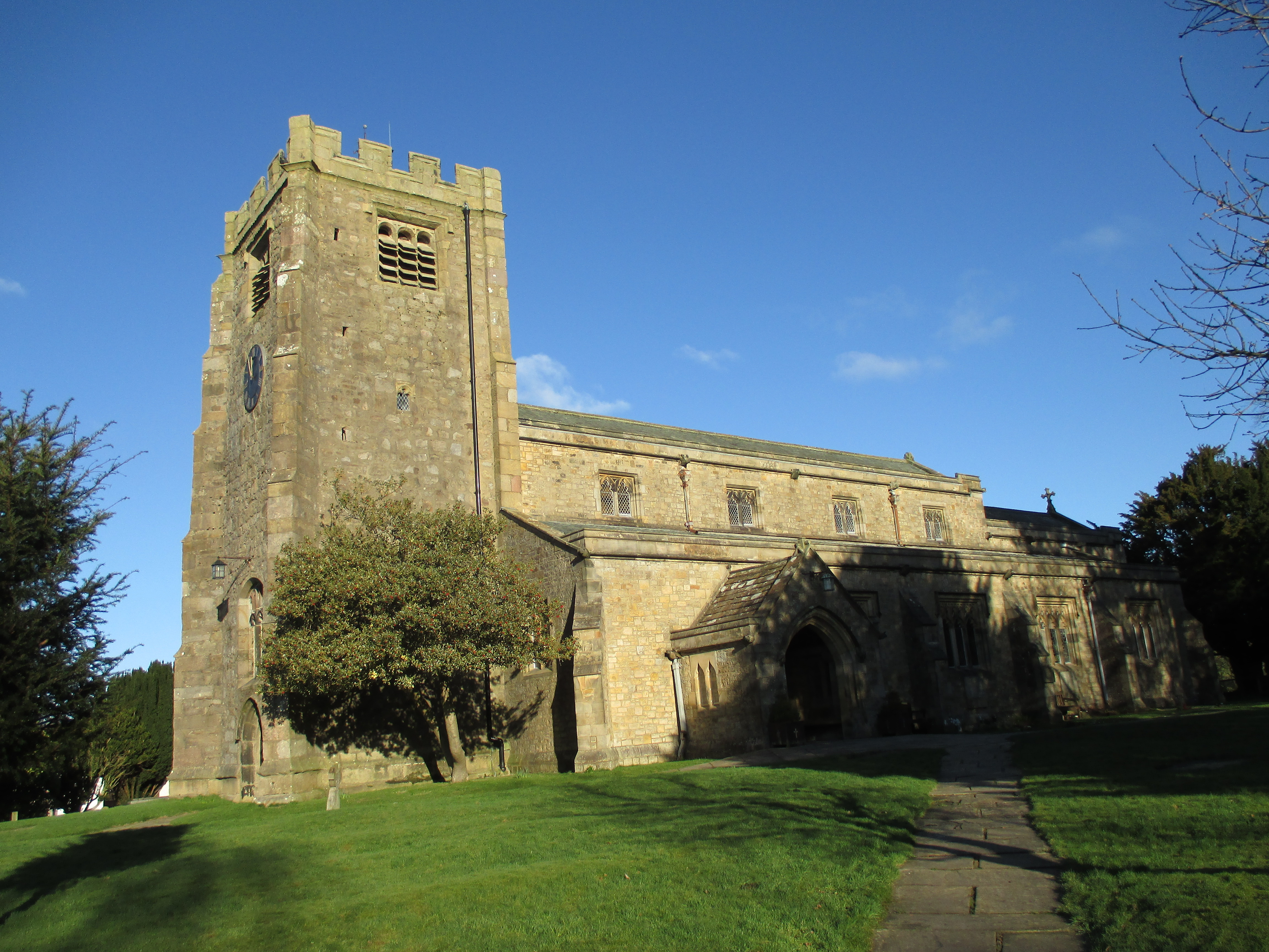 St Paul's Church, Brookhouse, in the civil parish of Caton-with-Littledale, Lancashire, seen from the south-west.